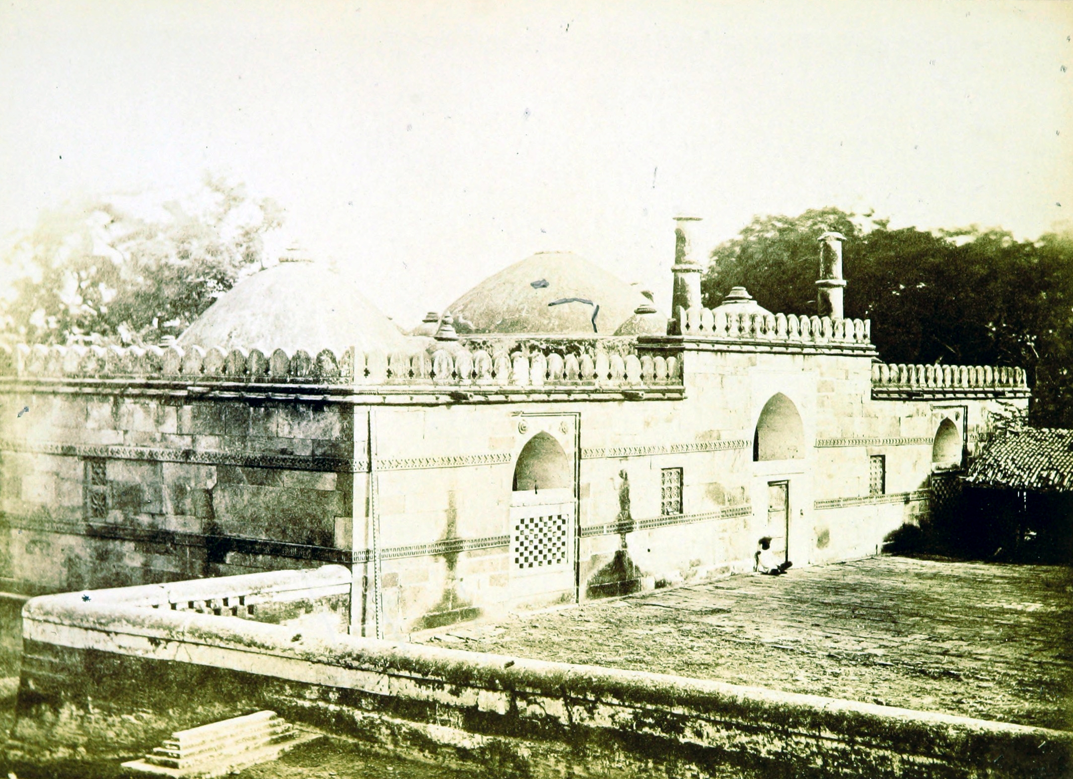 Image taken from: Title: "Architecture at Ahmedabad, the Capital of Goozerat, photographed by Colonel Biggs, ... With an historical and descriptive sketch, by T. C. H., ... and architectural notes by J. Fergusson, etc" Author: HOPE, Theodore Cracraft - Sir, K.C.S.I Contributor: BIGGS, Thomas. Contributor: FERGUSSON, James - Architect Shelfmark: "British Library HMNTS 10057.f.17.", "British Library OC V 6665" Page: 133 Place of Publishing: London Date of Publishing: 1866 Issuance: monographic Identifier: 001730119 Note: The colours, contrast and appearance of these illustrations are unlikely to be true to life. They are derived from scanned images that have been enhanced for machine interpretation and have been altered from their originals. If you wish to purchase a high quality copy of the page that this image is drawn from, please order it here. Please note that you will need to enter details from the above list - such as the shelfmark, the page, the book's volume and so on - when filling out your order. Following this or the link above will take you to the British Library's integrated catalogue. You will be able to download a PDF of the book this image is taken from, as well as view the pages up close with the 'itemViewer'. Click on the 'related items' to search for the electronic version of this work. Click here to see all the illustrations in this book and click here to browse other illustrations published in books in the same year. Please click on the tags shown on the right-hand side for other ways to browse the illustrations.